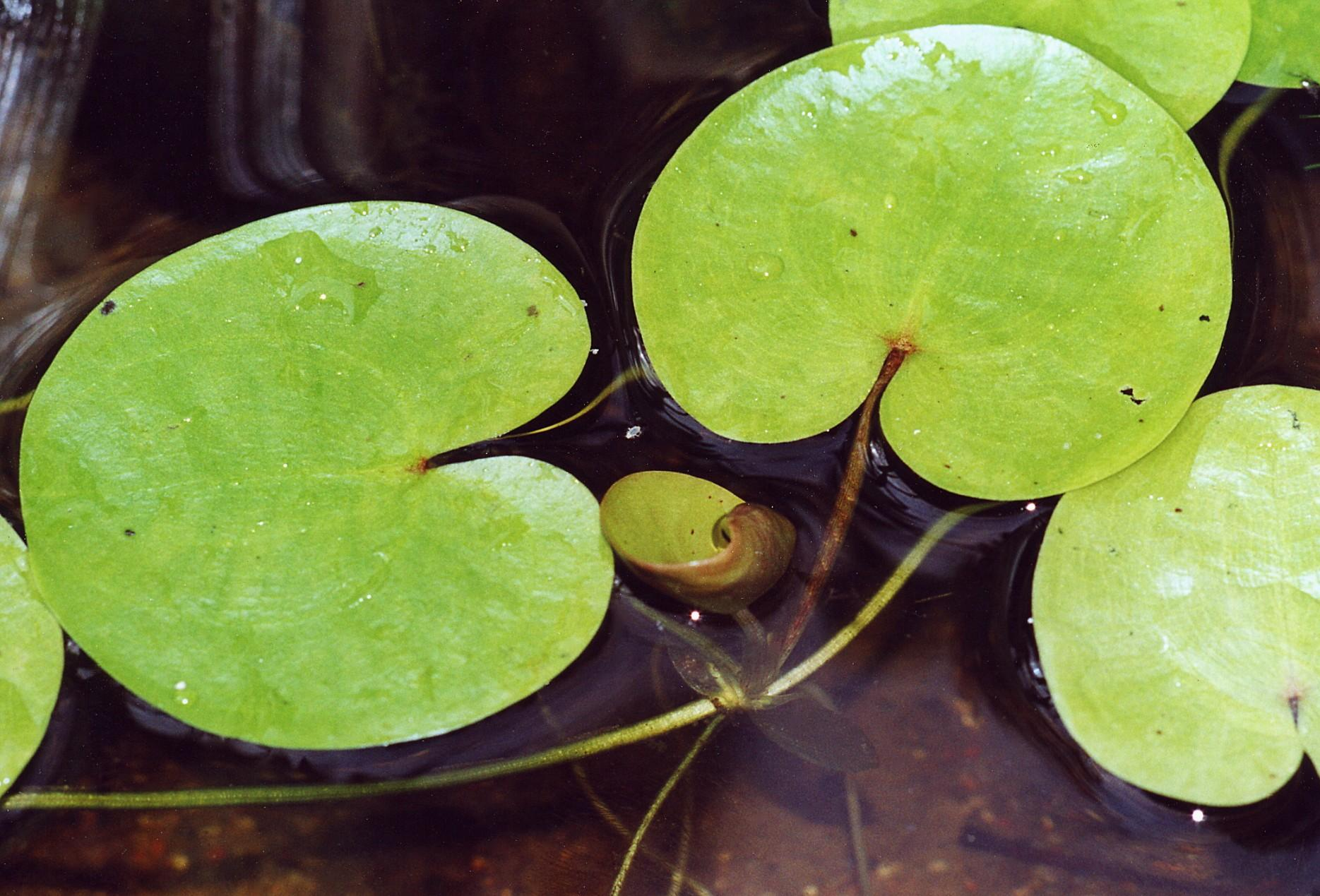 Swimming leaves of Hydrocharis morsus-ranae.